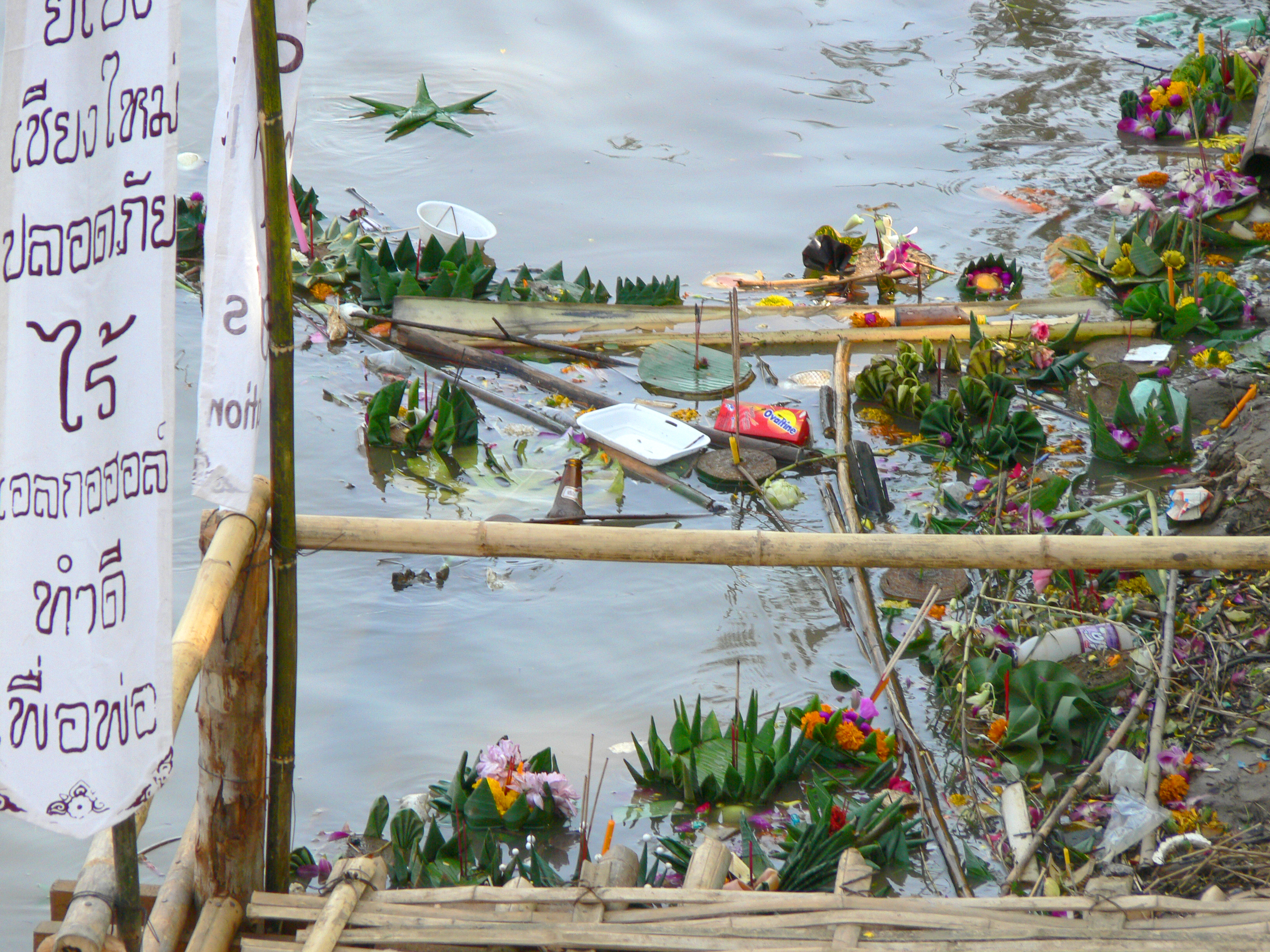 Kratongs floating in river Ping